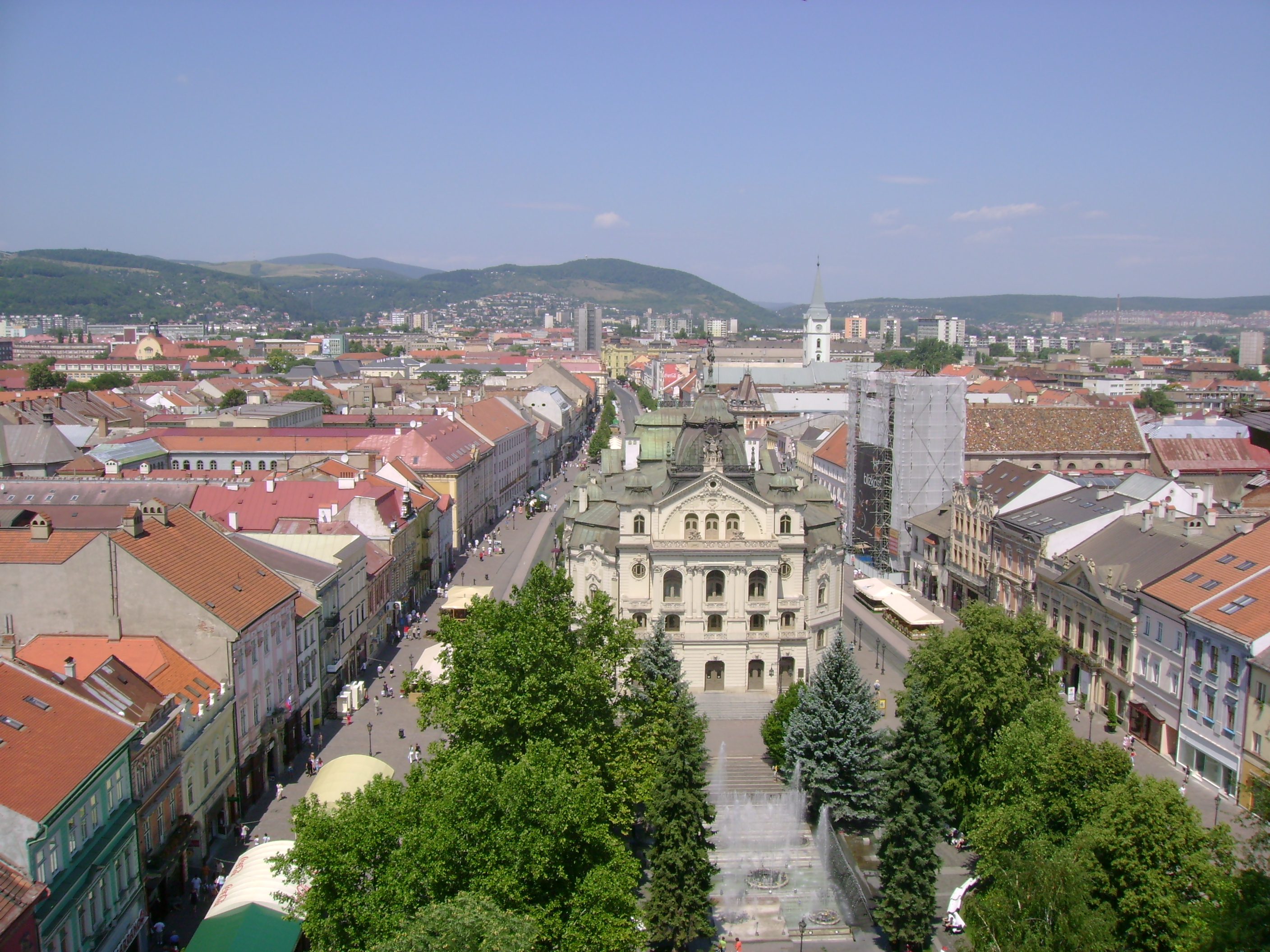 Košice Hlavná from St. Elisabeth Cathedral